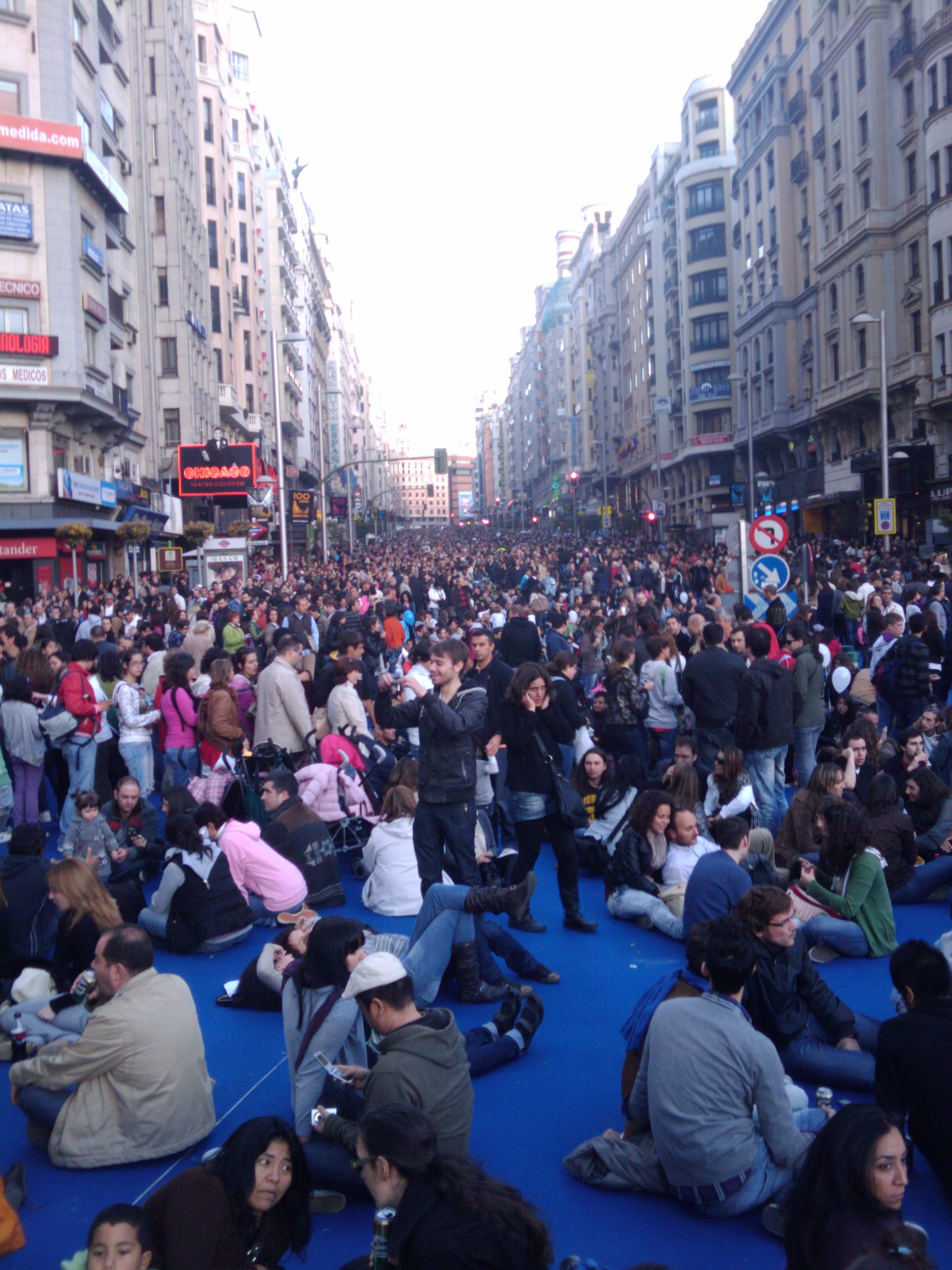 Celebration of San Isidro in the 100 years of Gran Via. Street was covered with a blue carpet and was cut off to traffic.